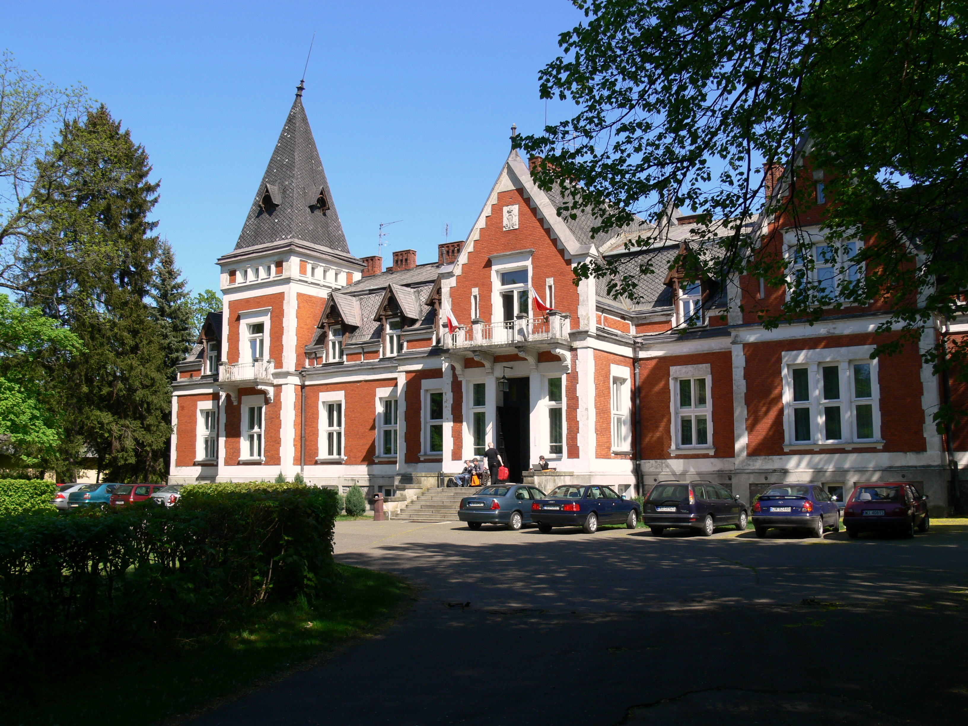 Radziwills’ Palace in Jadwisin near Warsaw, Poland